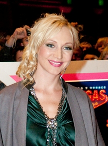 Kristina Orbakaite September 2010